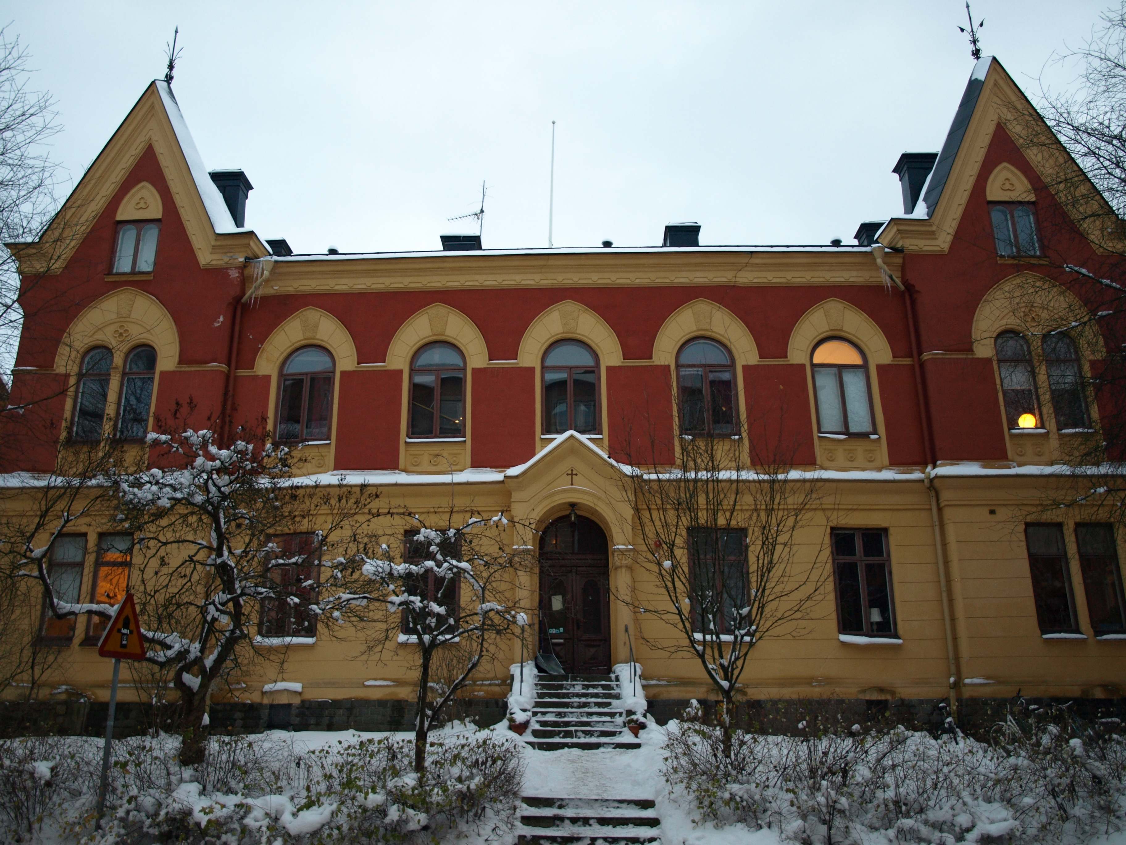 The student home "Norrbyska studenthemmet" in Uppsala, Sweden.